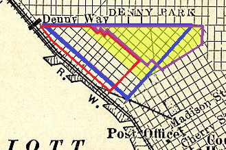 A map of showing different ways of defining Seattle's "Belltown", "Denny Regrade" and "Denny Triangle" neighborhoods. The yellow background shows the definition of "Denny Regrade" given in the Seattle City Clerk's Neighborhood Map Atlas. With blue border, "Belltown (Denny Regrade)" as defined by With red border, "Belltown" and with purple border "Denny Triangle", as defined by Underlying map is the now-public-domain map of Seattle in 1914, published in the book New Geographies (1914) by Tarr & McMurry.